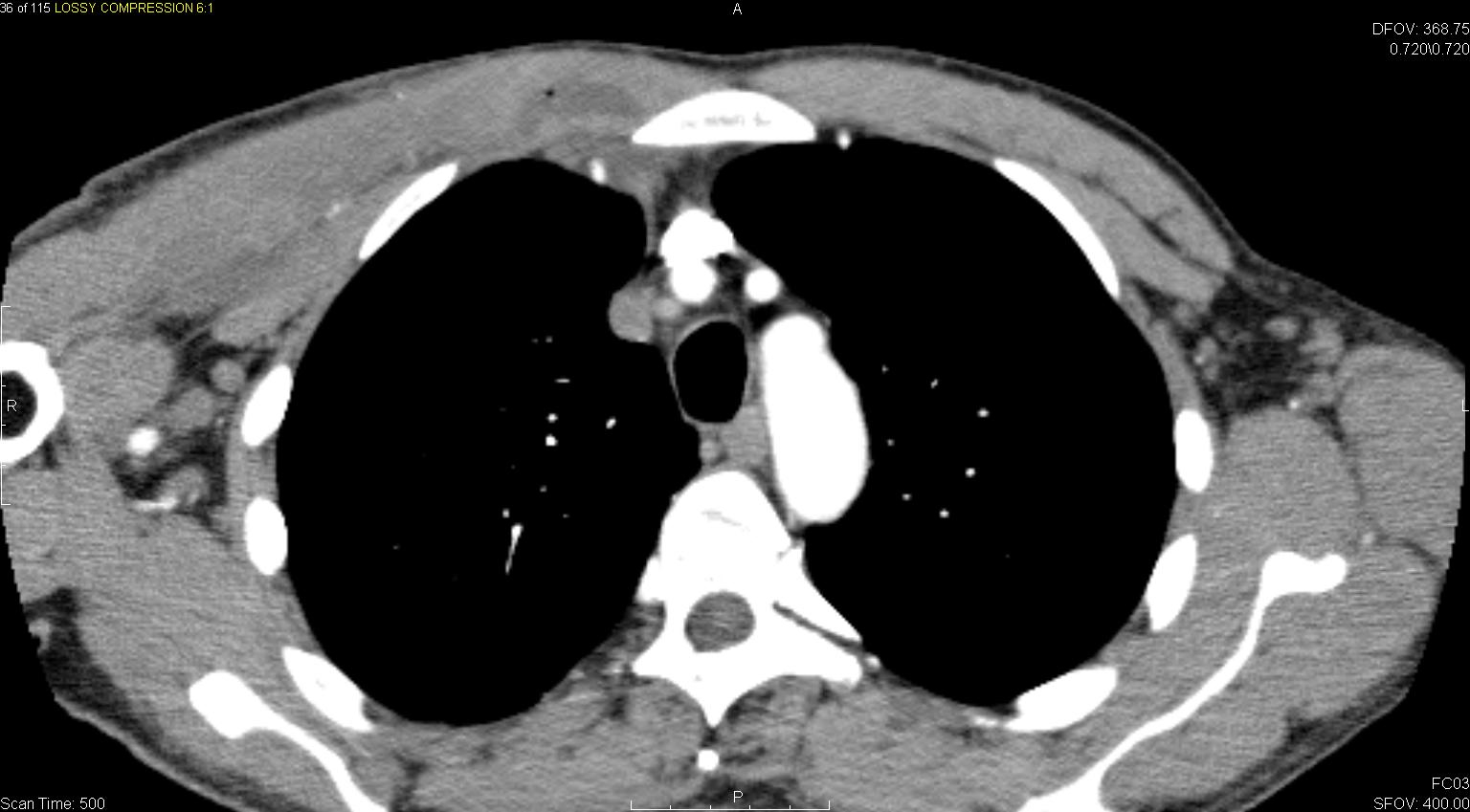 Axial CT image post IV contrast showing pyomyositis in the right pectoralis major muscle. The muscle is enlarged and there is a focal abscess collection with gas in the medial aspect of the muscle.